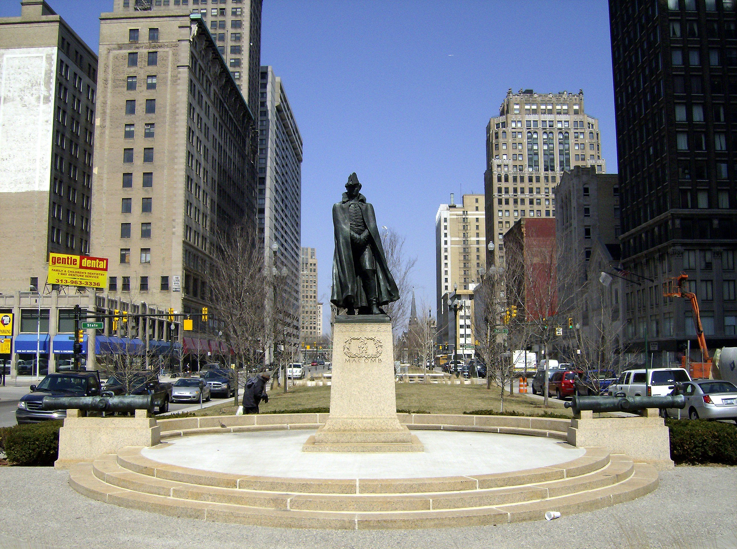 General Macomb statue, looking north on Washington Blvd. in Detroit.